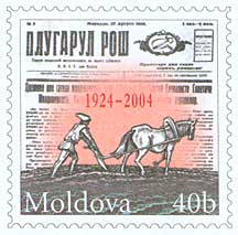 Stamp of Moldova